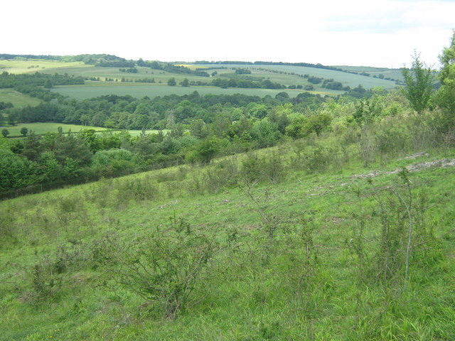 Darenth Valley viewed from Preston Hill Preston Hill is SSSI (Site of Special Scientific Interest). A path from A225 Station Road leads over the railway then up the hill.